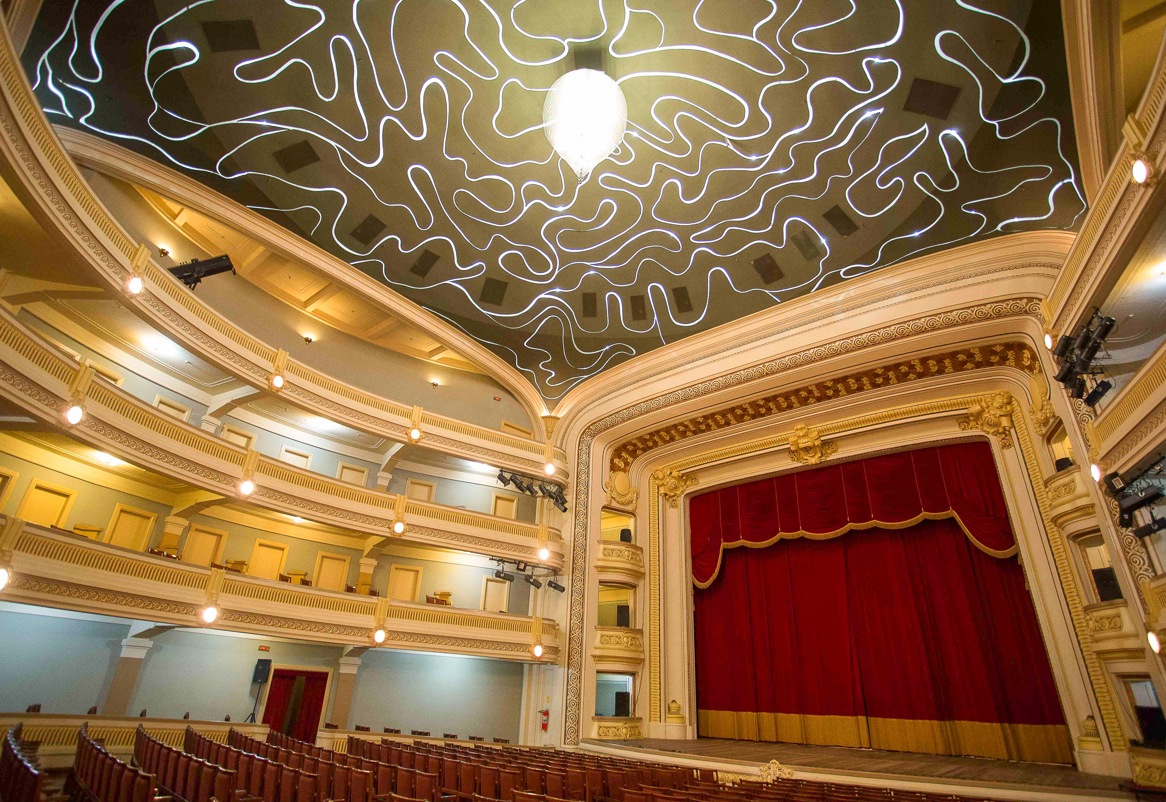 O governador Geraldo Alckmin assinou a doação do Theatro PedroII para a prefeitura de Ribeirão Preto. Foto: Mastrangelo Reino/A2img